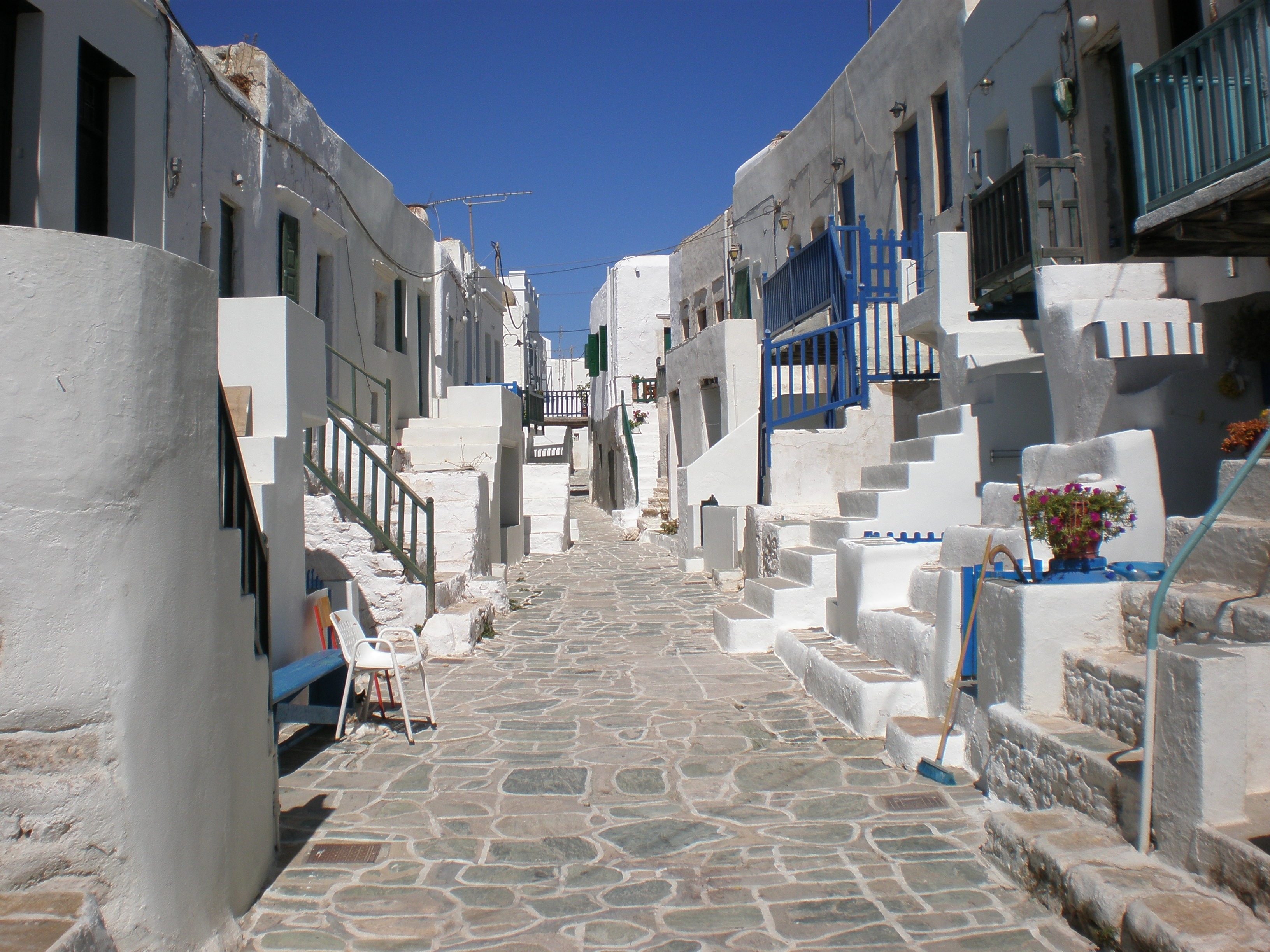 Inside the "kastro" (fortress) of Folegandros